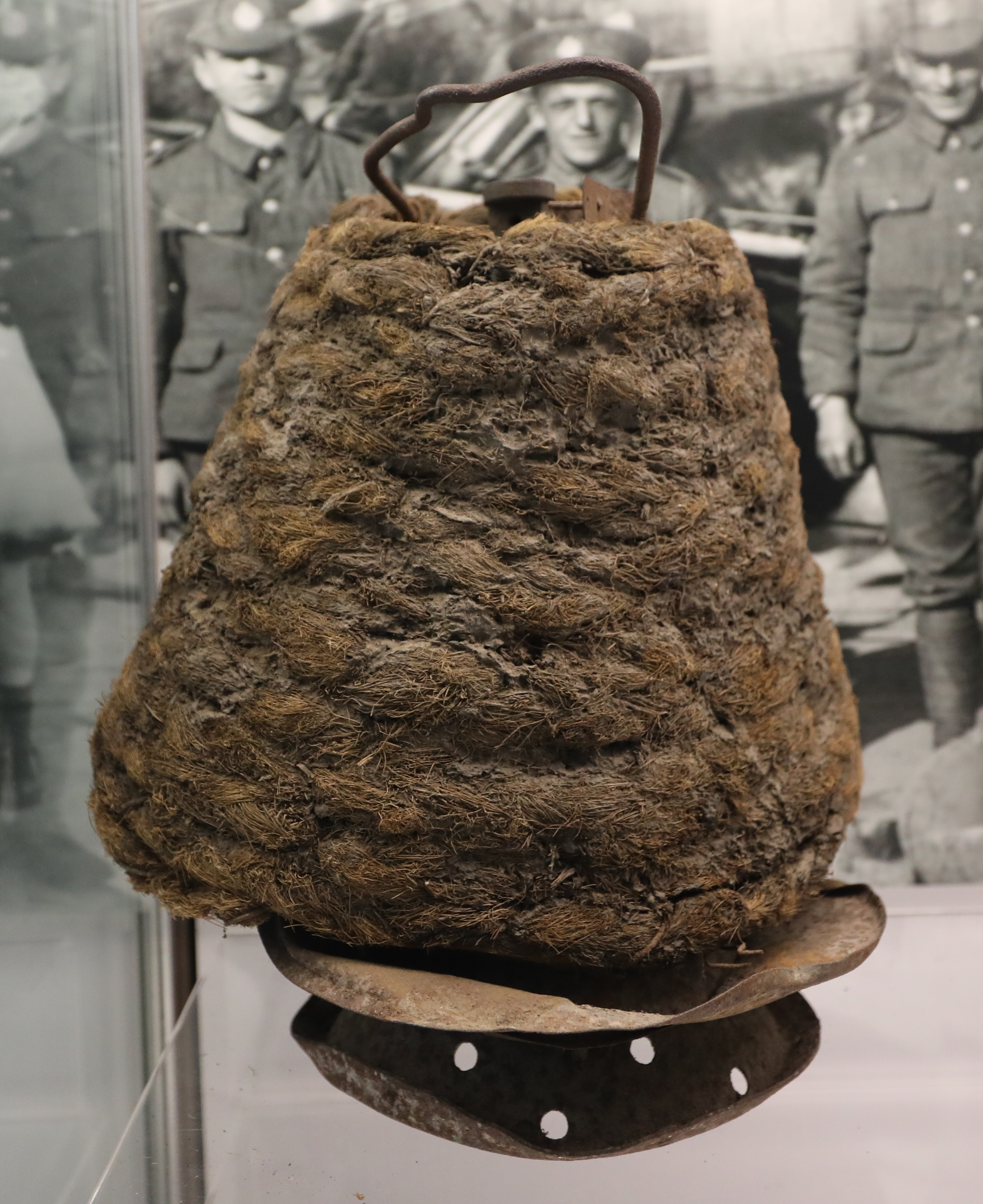 Photo of an incendiary bomb dropped on sutton road southend in 1916